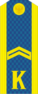 Russian rank insignia (1994-2010), here Kursant (wit the ranc "Corporal" OR-4) – shoulder strap (Air Force, Airborne troops) field uniform.